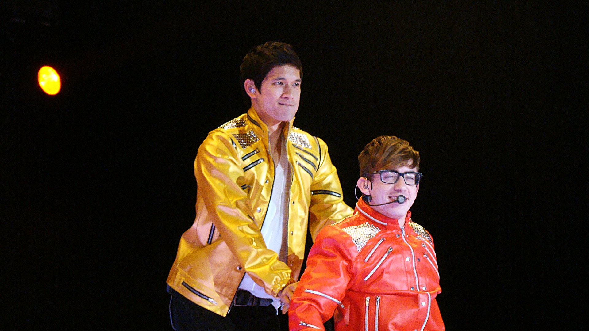 P.Y.T. (Pretty Young Thing)